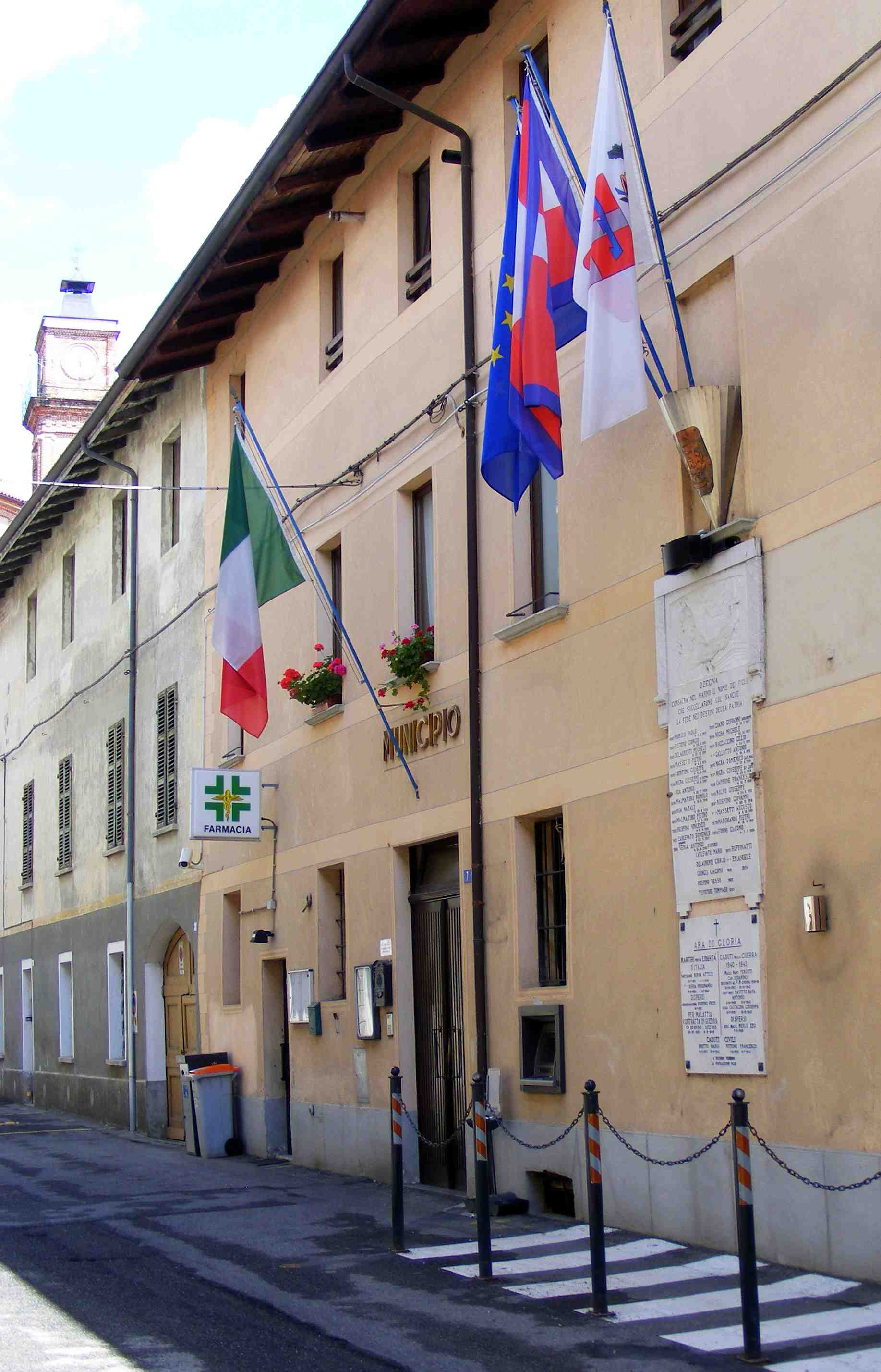 Ozegna (TO, Italy): town hall